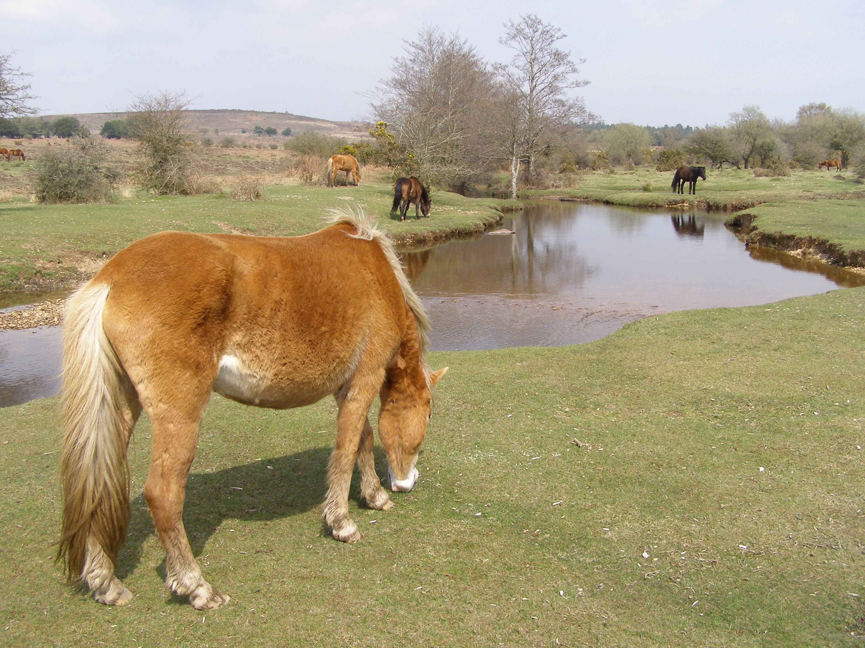 Ponies grazing alongside the Latchmore Brook at Latchmore Bottom, New Forest